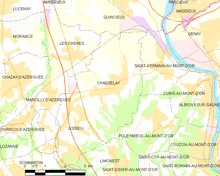 Map of French municipality